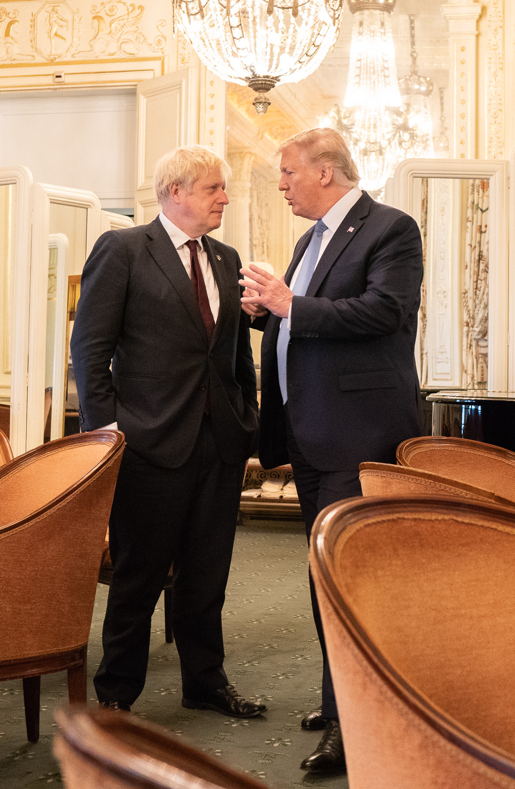 President Donald J. Trump and British Prime Minister Boris Johnson continue to talk at the conclusion of their working breakfast meeting Sunday, Aug. 25, 2019, at Hotel du Palais Biarritz in Biarritz, France, site of the G7 Summit.